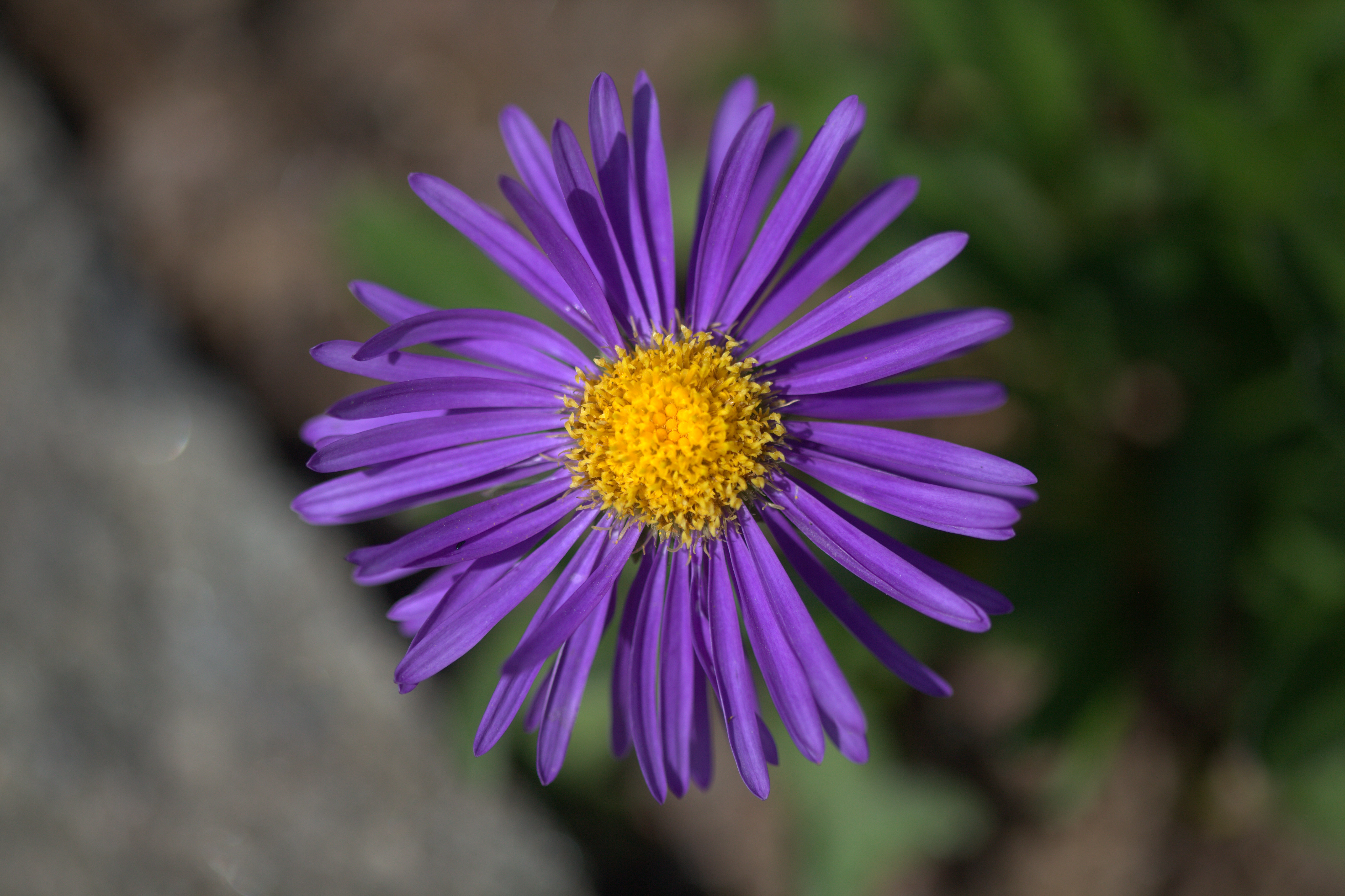 Photo taken at Gothenburg botanical garden. Specimen id: 2007-2610 p G Plant collected in 2007 from a garden (Säve).